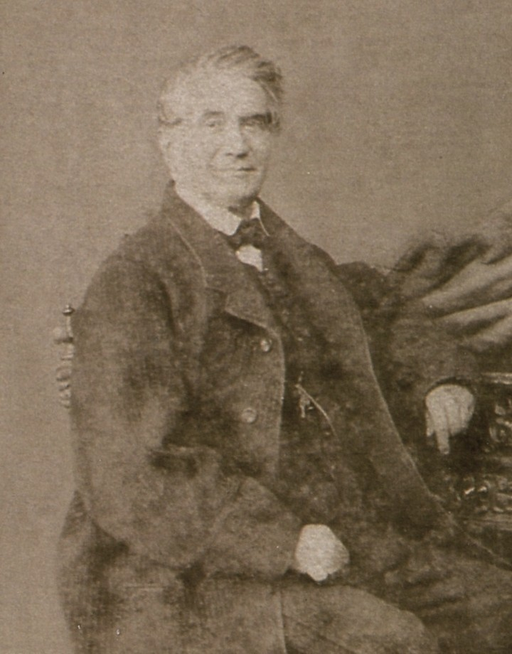 Photo of Maestro Cesare Pugni (1802-1870). Composer of the Ballet Music to Her Majesty's Theatre, London (1843-1850); Composer of Ballet Music to the St. Petersburg Imperial Theatres (1850-1870).